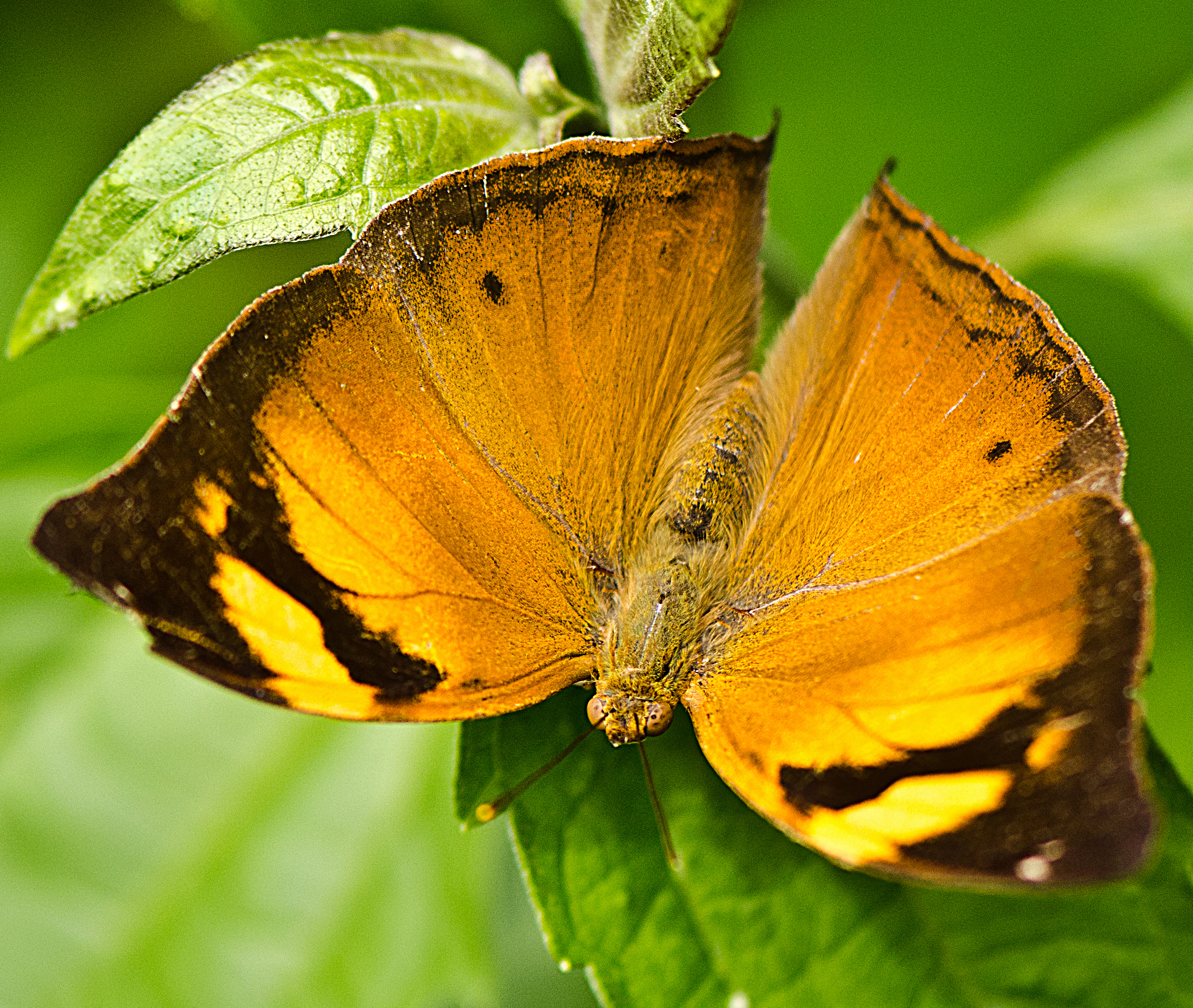 Doleschallia bisaltide from Madayippara